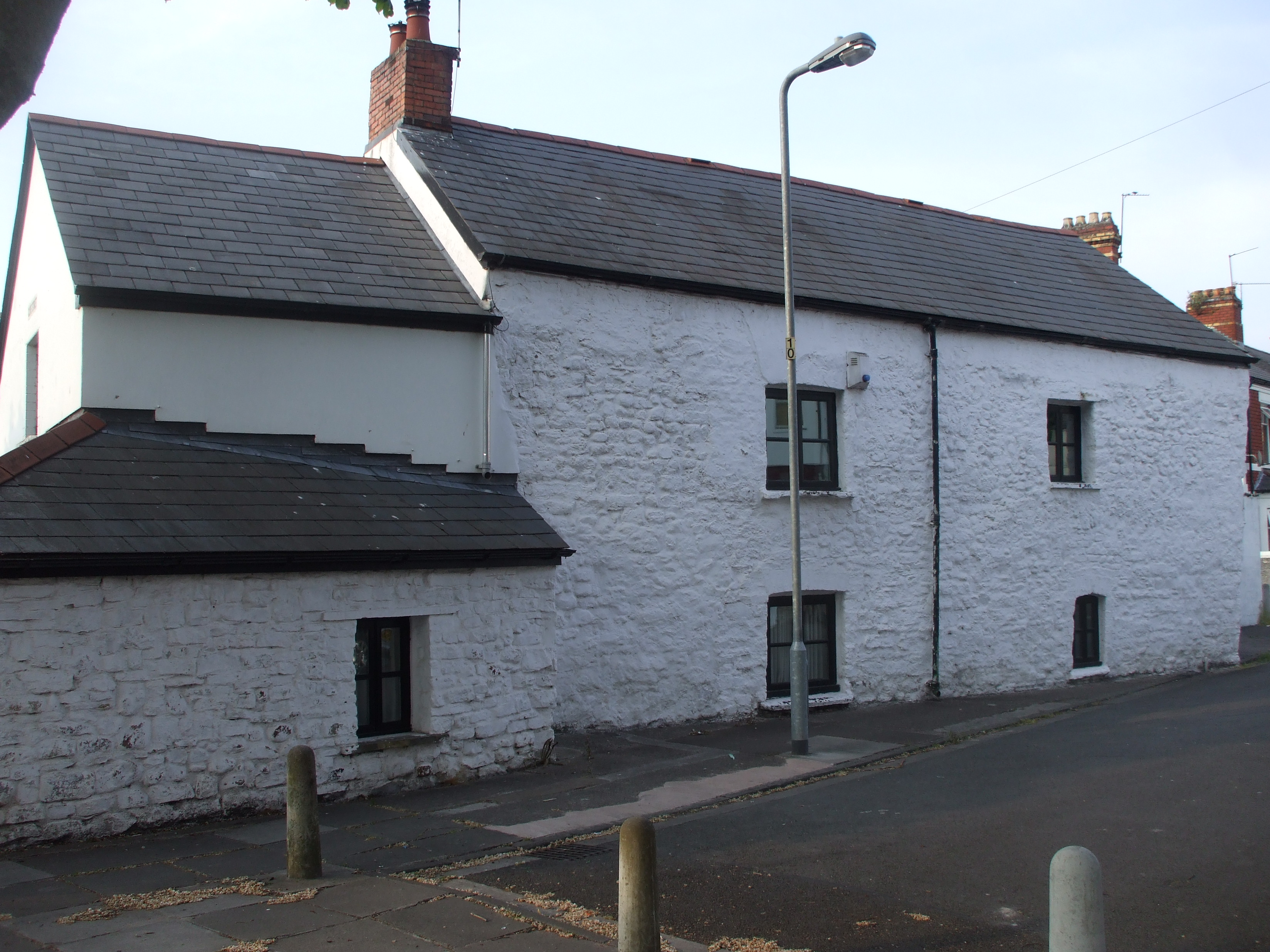 Grange Farm, Stockland Street, Grangetown, Cardiff, Grade II listed farmhouse and one of the oldest buildings in Cardiff